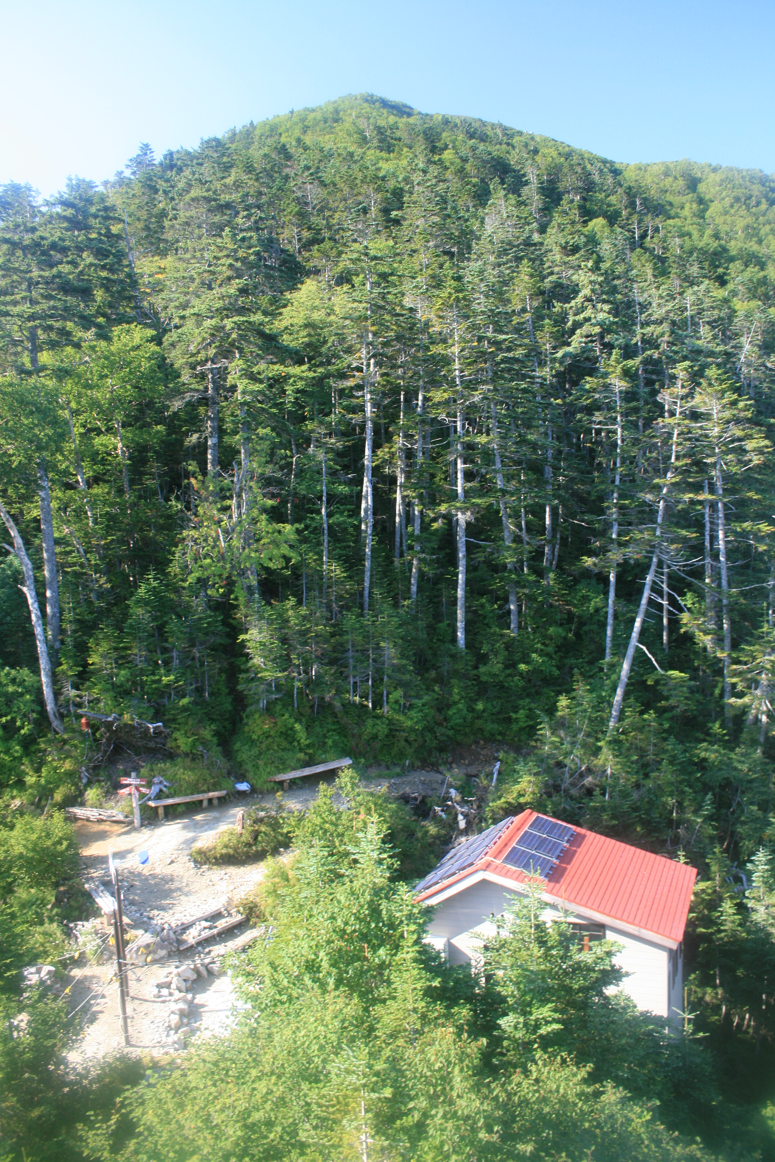 Kiso-Komagatake Nanagome Hinangoya ("Bivouac hut on Mount Kisokoma 7th station") in Kiso Town, Nagano Prefecture, Japan, with Mount Mugikusa (Mugikusa-dake) in the background